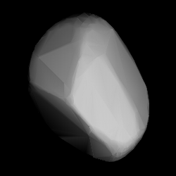 3D convex shape model of 1061 Paeonia, computed using light curve inversion techniques. J. Hanuš, J. Ďurech, M. Brož, B. D. Warner (June 2011). "A study of asteroid pole-latitude distribution based on an extended set of shape models derived by the lightcurve inversion method". Astronomy and Astrophysics 530: A134. ISSN 0004-6361. arXiv